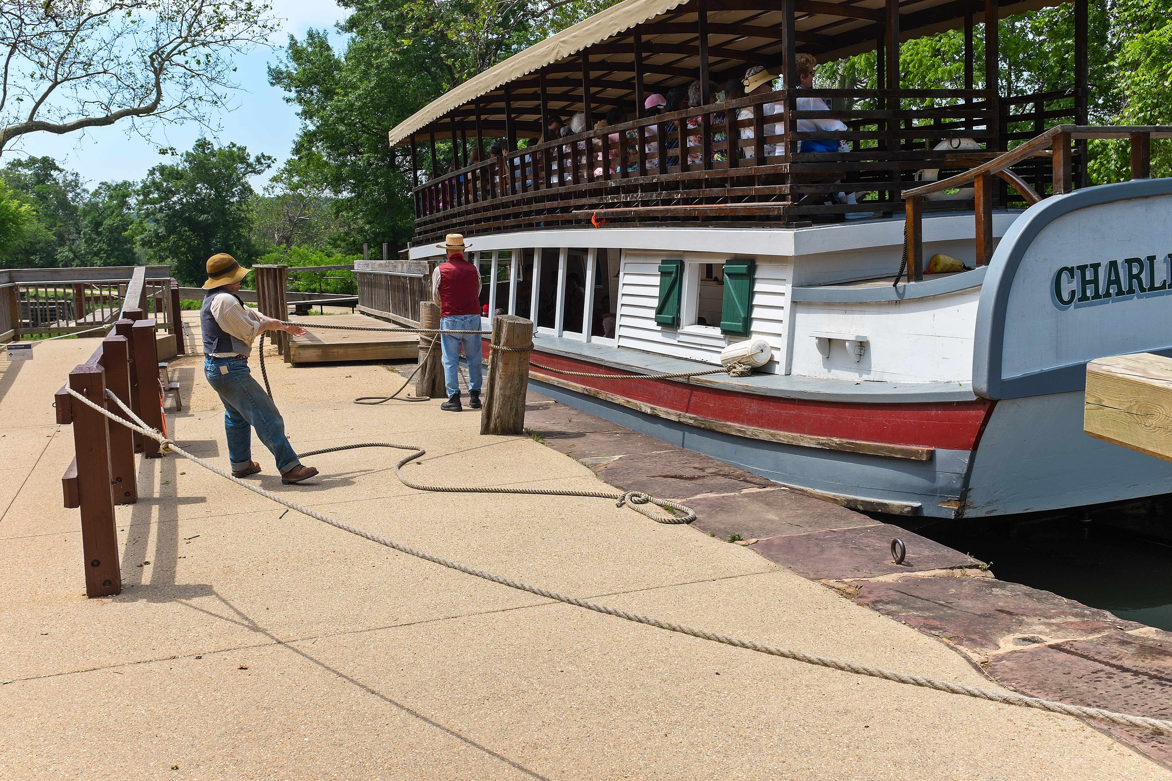 Another example of snubbing a mule driven canal boat, so it doesn't crash into the lock gate, here on the Chesapeake and Ohio Canal, Lock 20